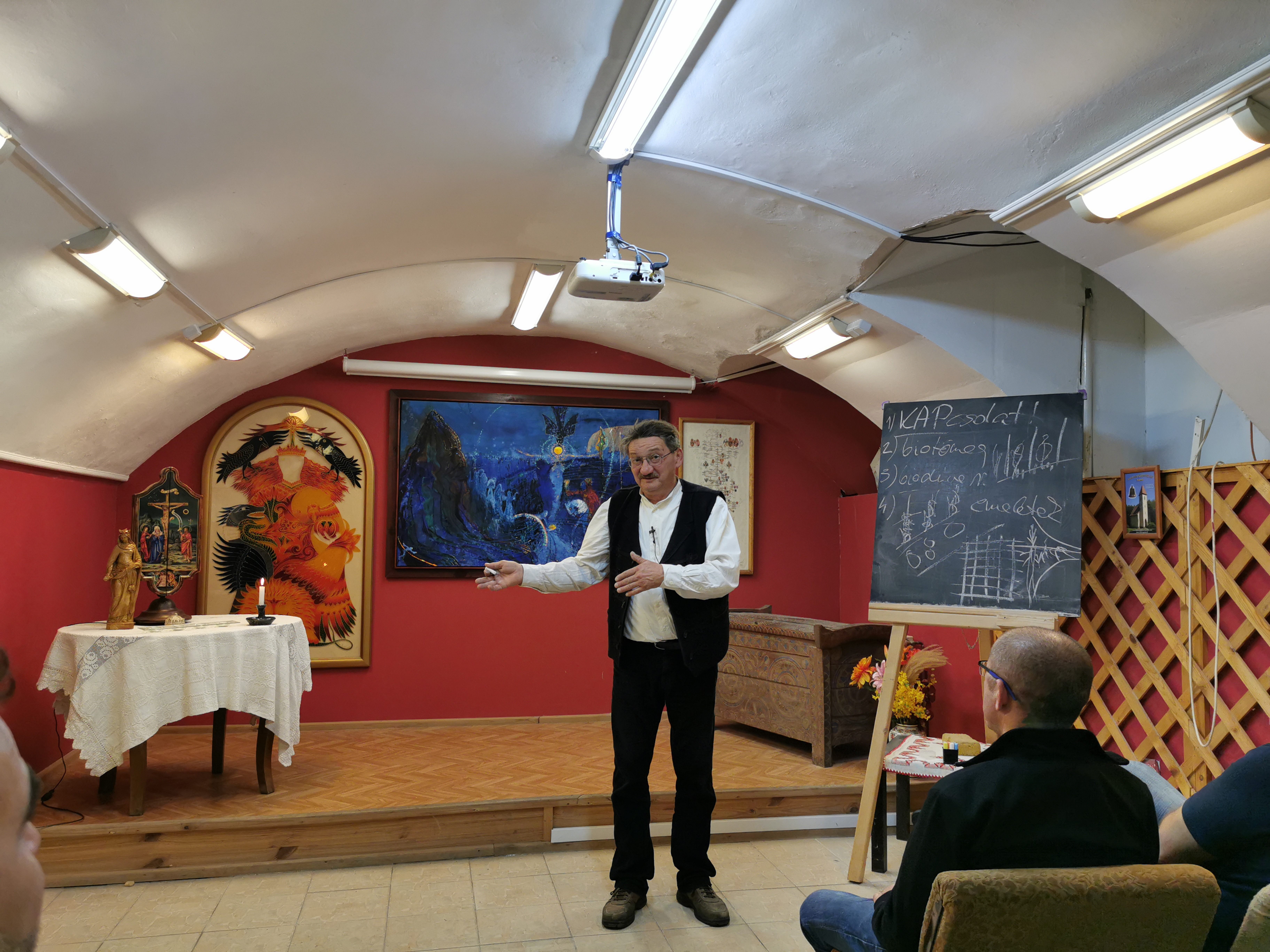 Géczy Gábor - Kert-Magyarországː "A Fater telke" - avagy lehetőségeinkről. Taken onThuesday, the 3rd of December, 2019. Két Hollós, Budapest.